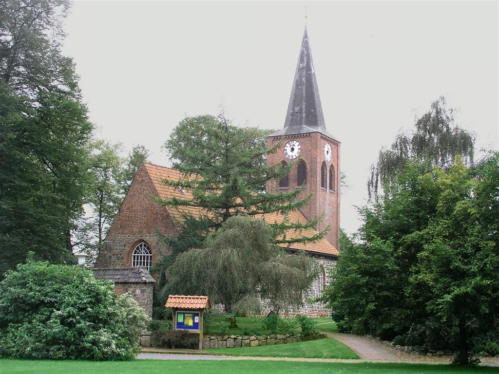 Ringstedt (Lower Saxony, Germany), church , photo 2006